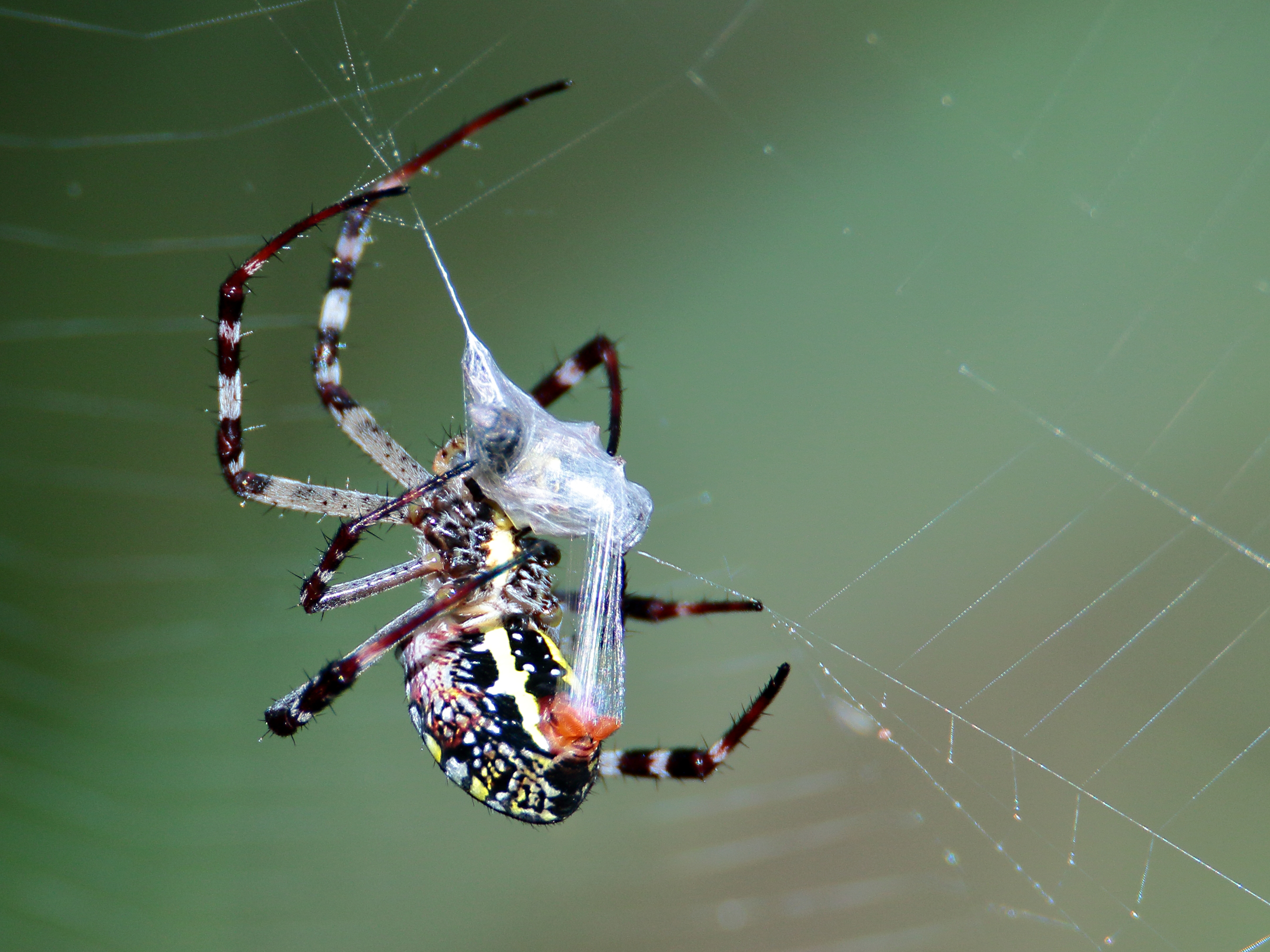 A female spider (Argiope picta) wrapping prey by exuding a curtain of silk from its spinnerets. Image taken at Dinden National Park, Queensland, Australia.